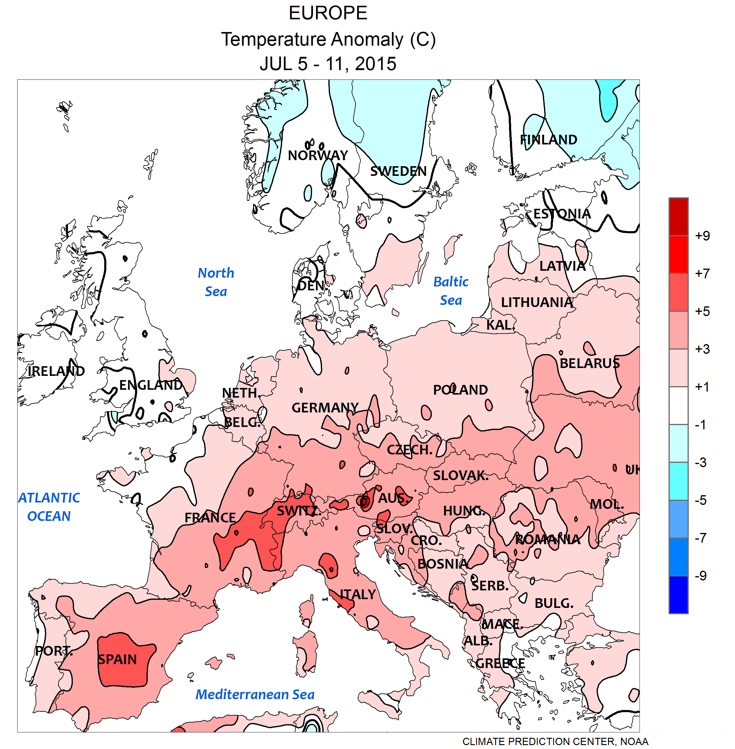 Europe: Temperature_anomaly July 5 - 11, 2015, computer generated colours, based on preliminary data